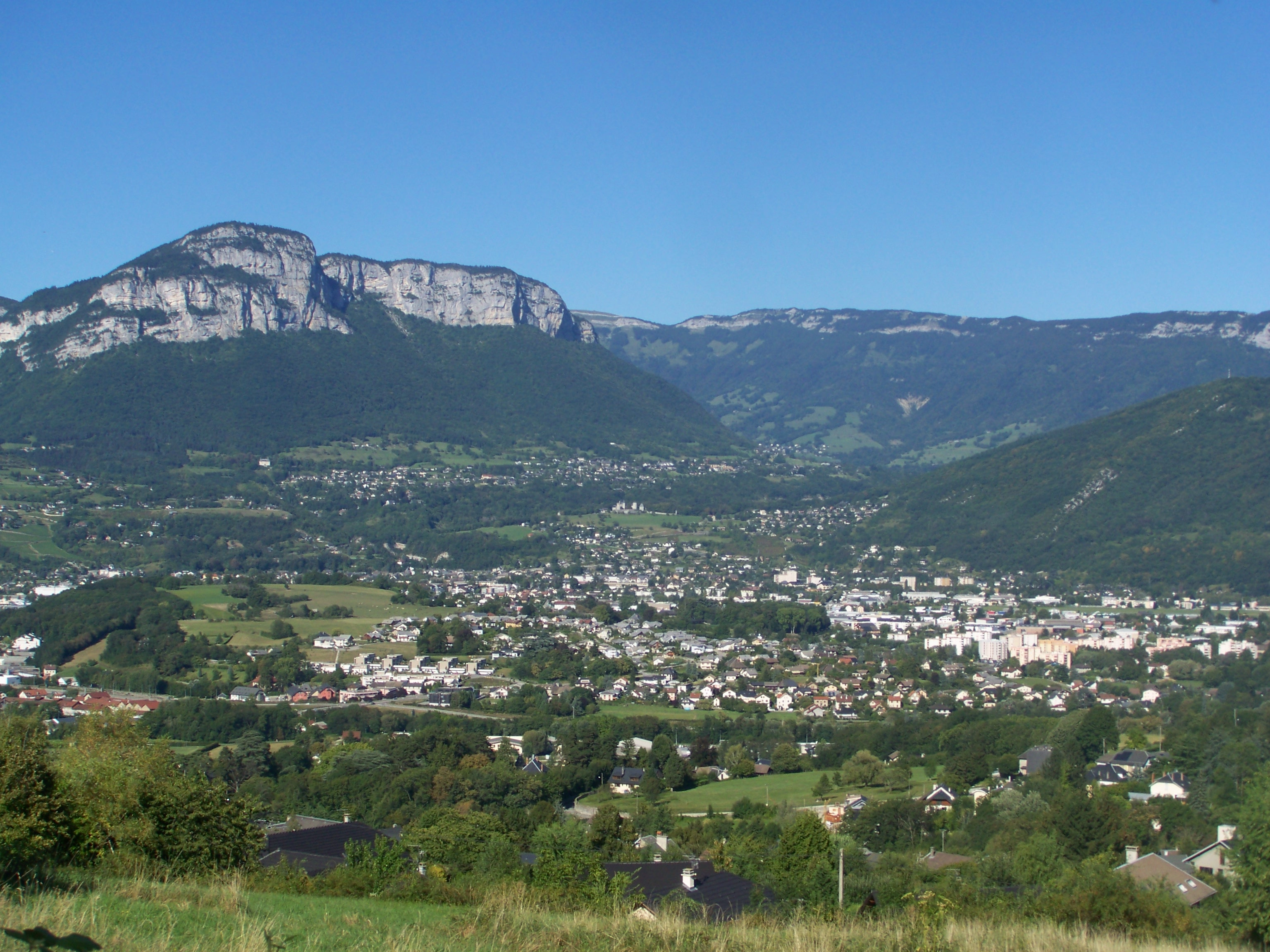 Sight of Mont Peney mount and city of La Ravoire near Chambéry in Savoie, France.